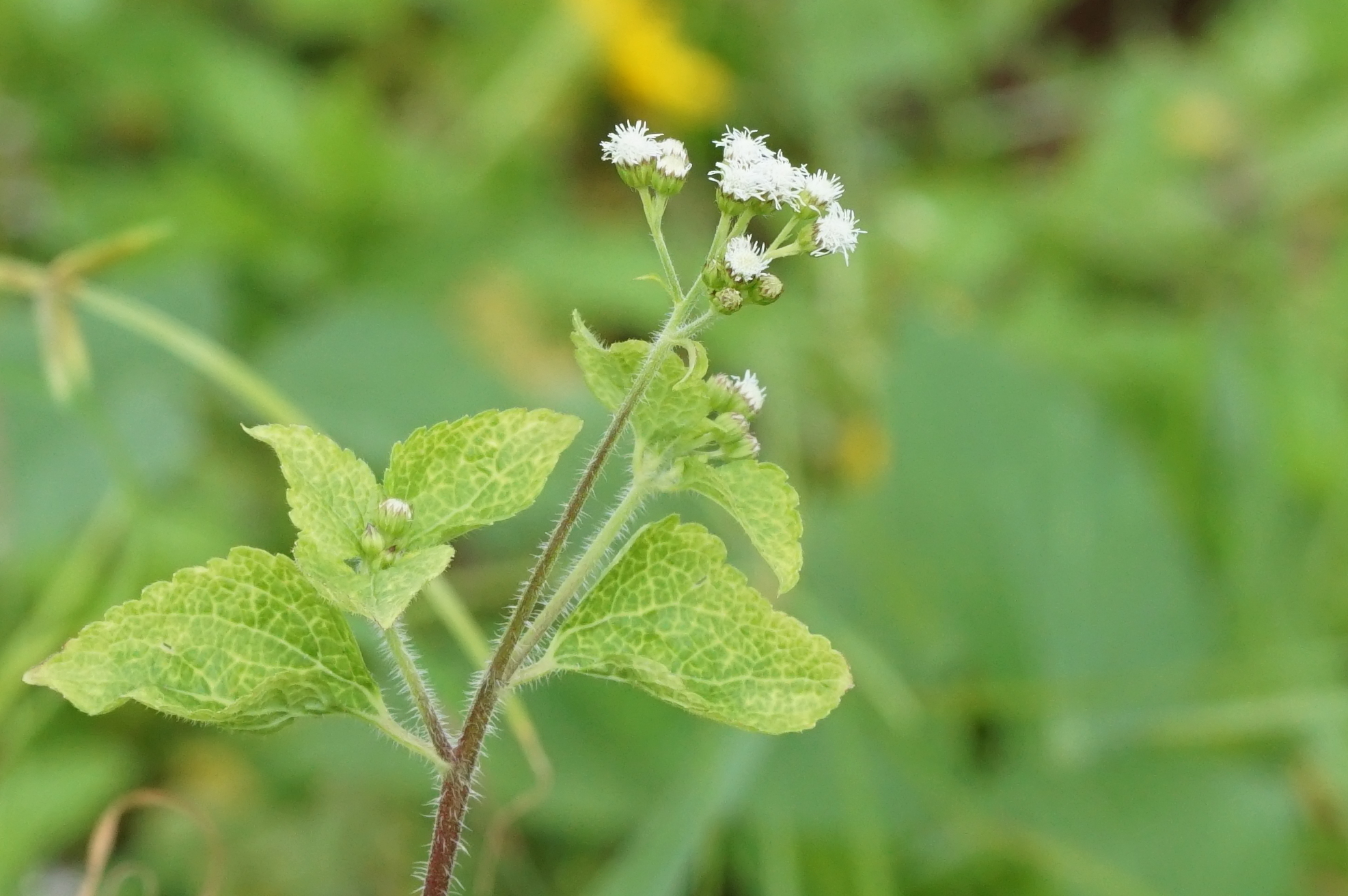 Ageratum conyzoides